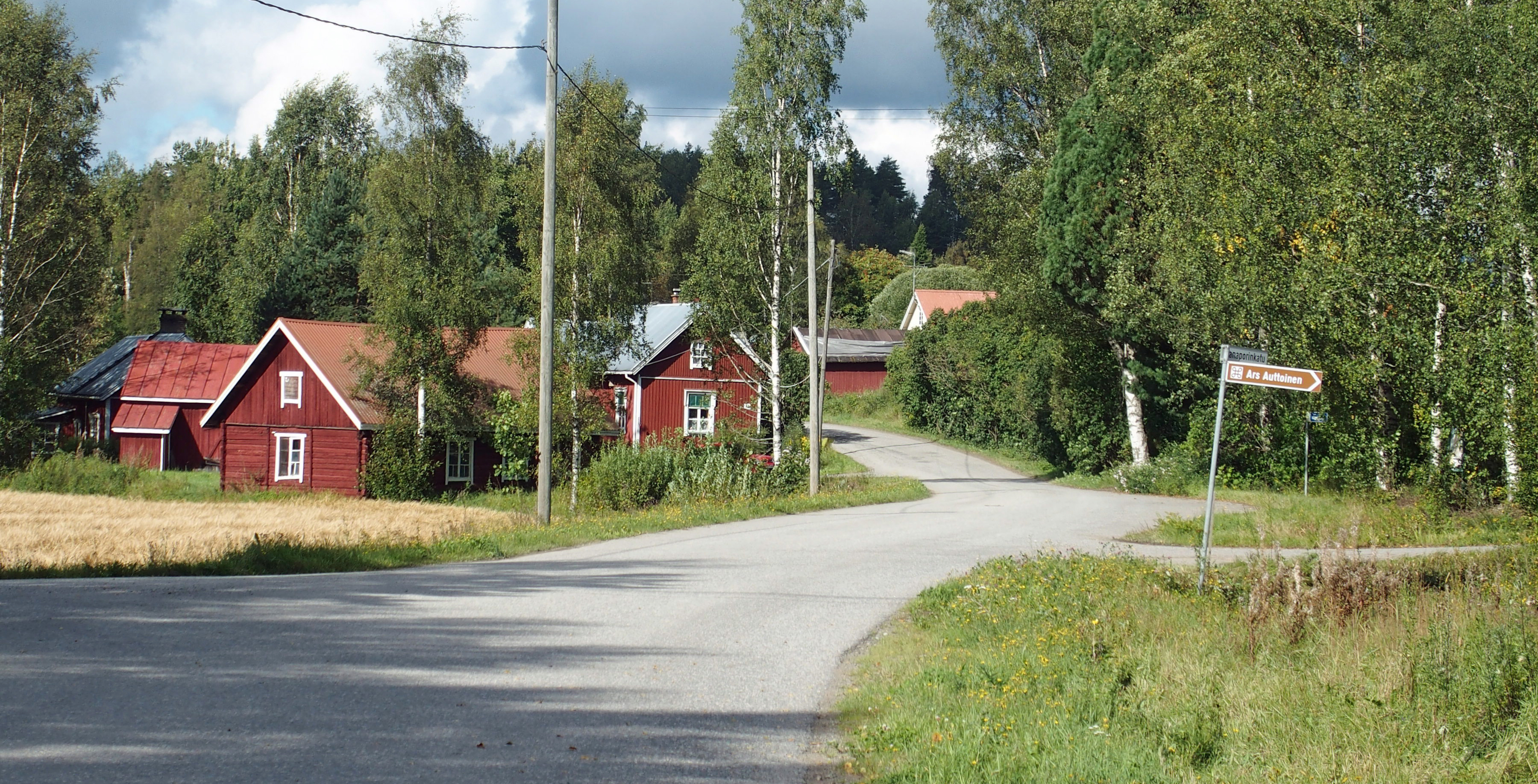 Auttoinen village in Padasjoki, Finland